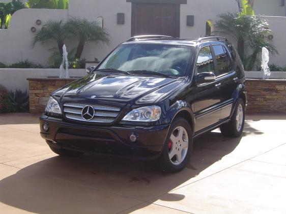 2002 Mercedes-Benz ML55 AMG Photographed in Palm Beach, FL.